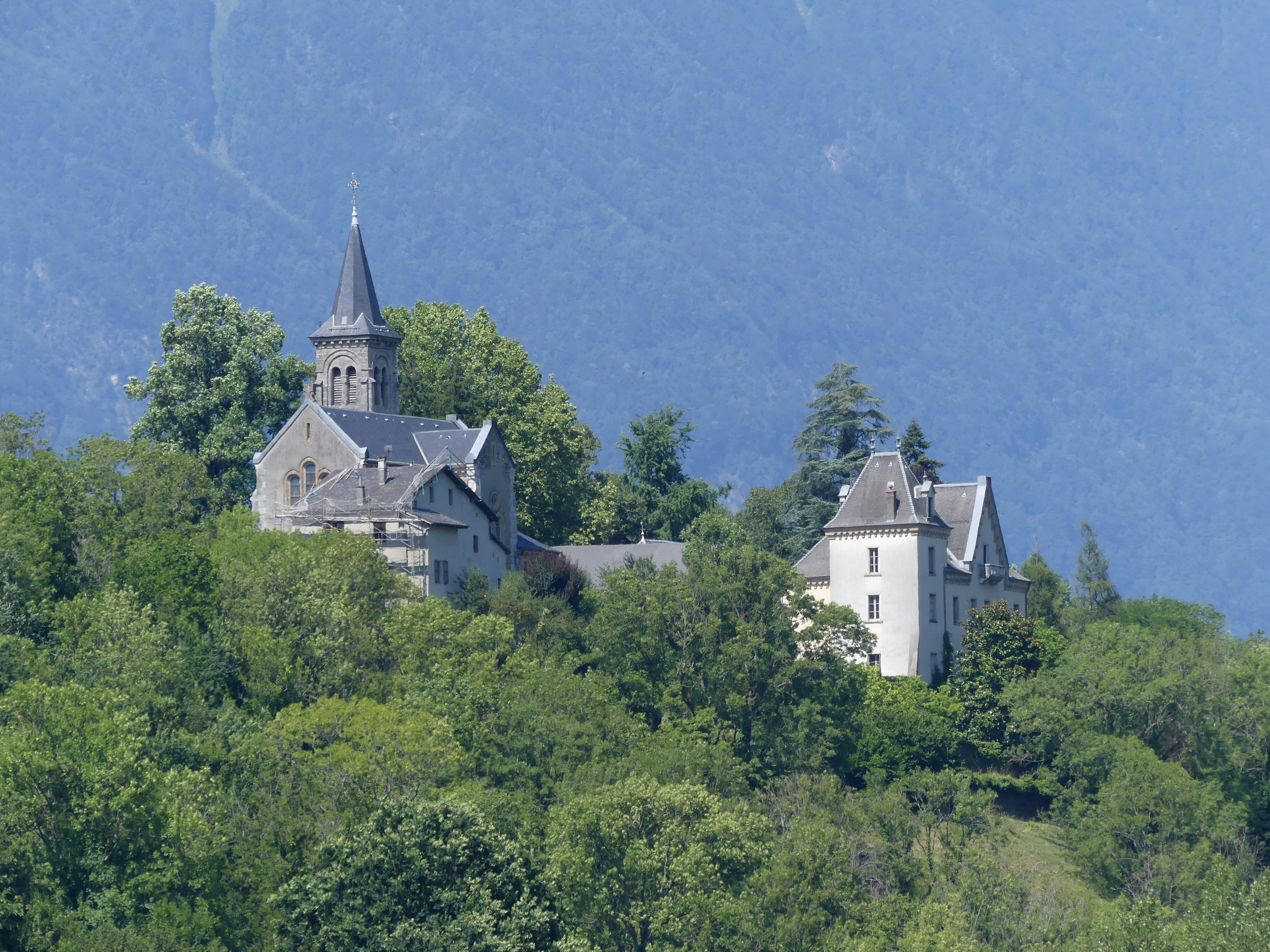 Sight, from the plain, of Saint-Clair church and Château du Bettonet castle, in Betton-Bettonet, Savoie, France.